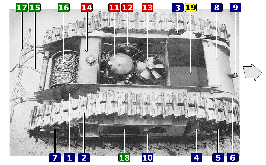 US Departmen of Ordnance - Catalog of Enemy Ordnance Manual Vol. 1 - 1945 GOLIATH German remote controlled tracked vehicle opened, interior, fuel powered